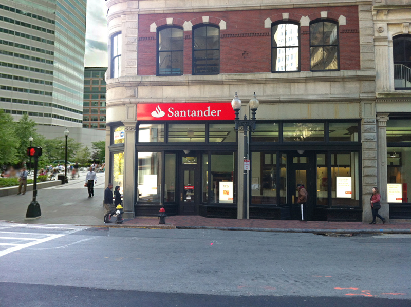 Santander Bank, Summer Street, Bostonn (USA)